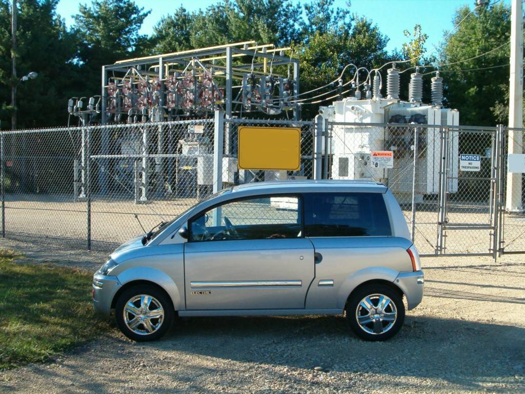 2007 ZENN 2.22 NEV Silver